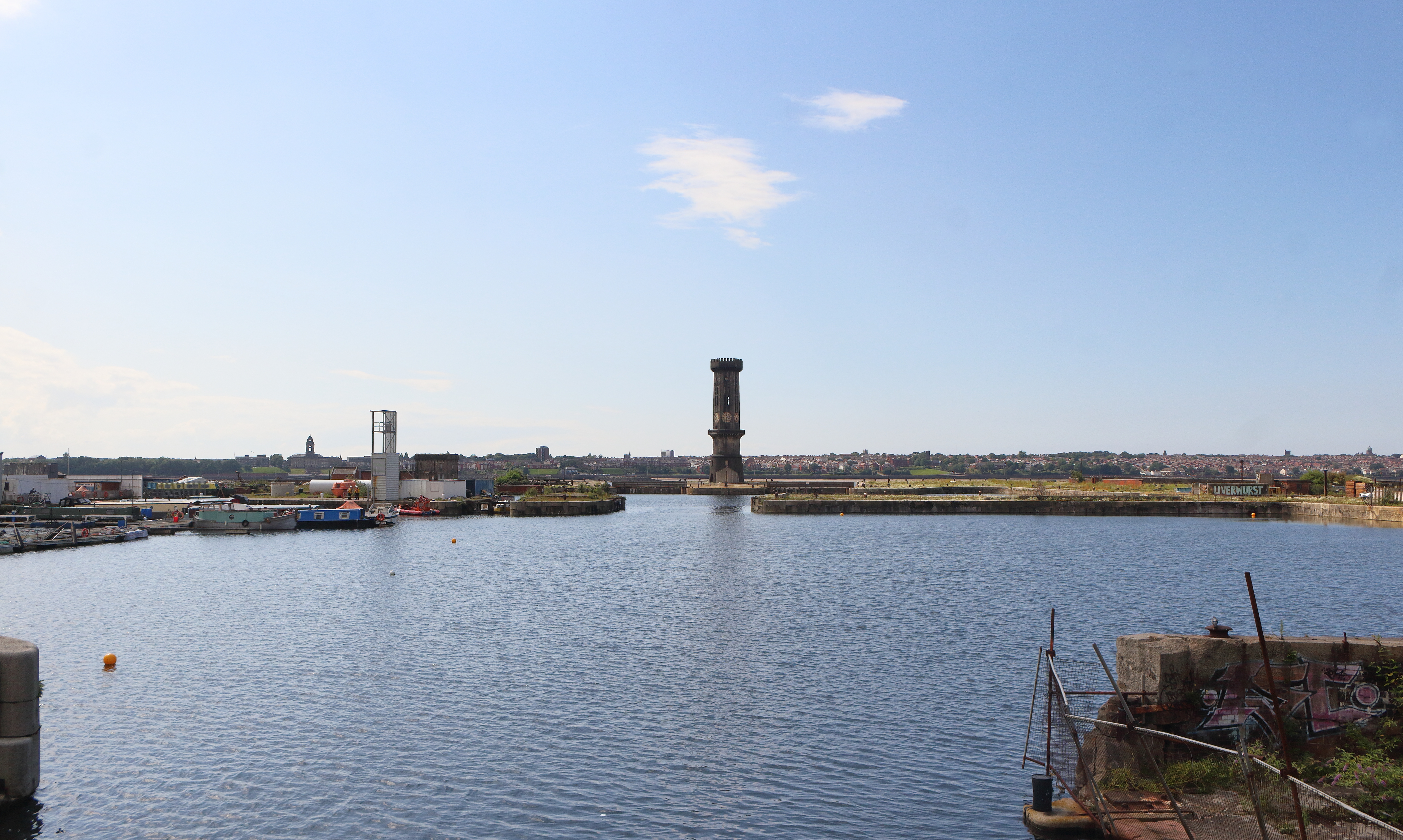 View west from Stanley Dock bascule bridge across Collingwood and Salisbury Docks to the Victoria Tower